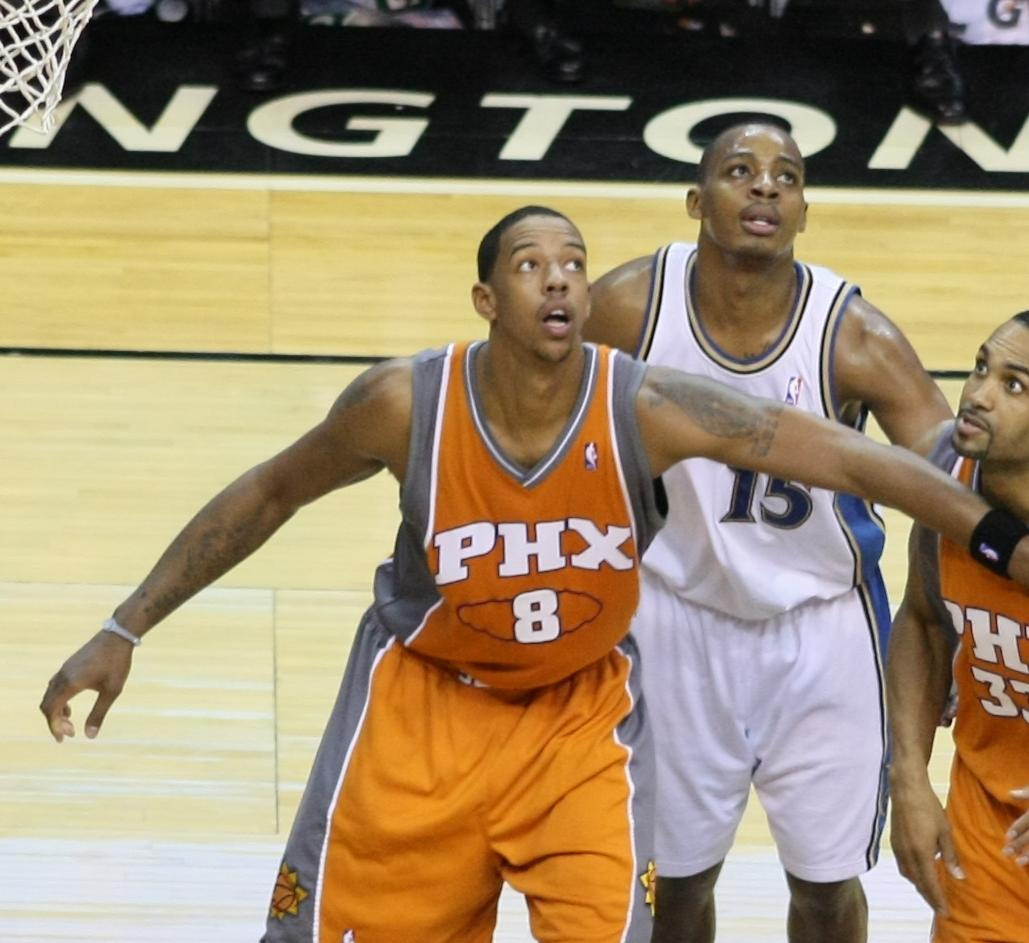 Channing Frye playing with the Phoenix Suns